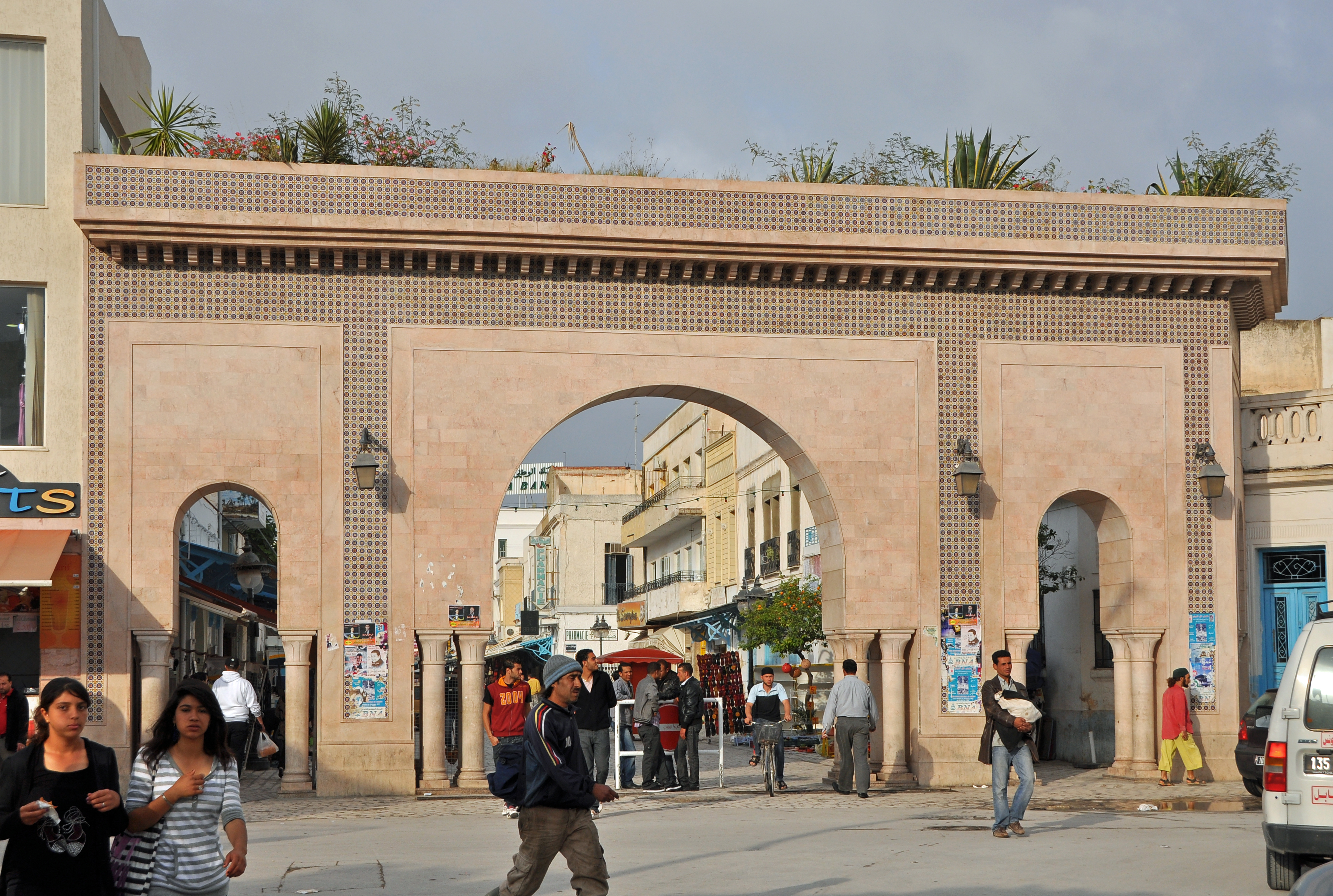 Nabeul (Tunisia): gate